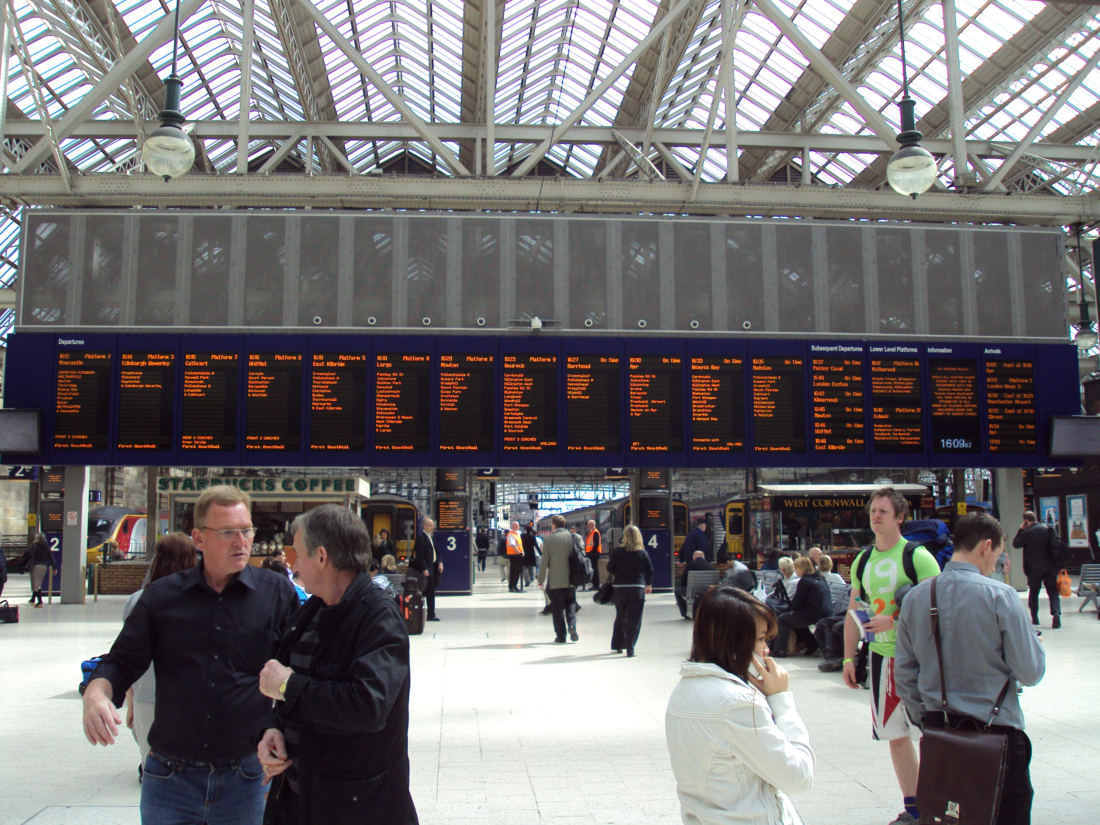 Departures board at Glasgow Central railway station, Scotland.